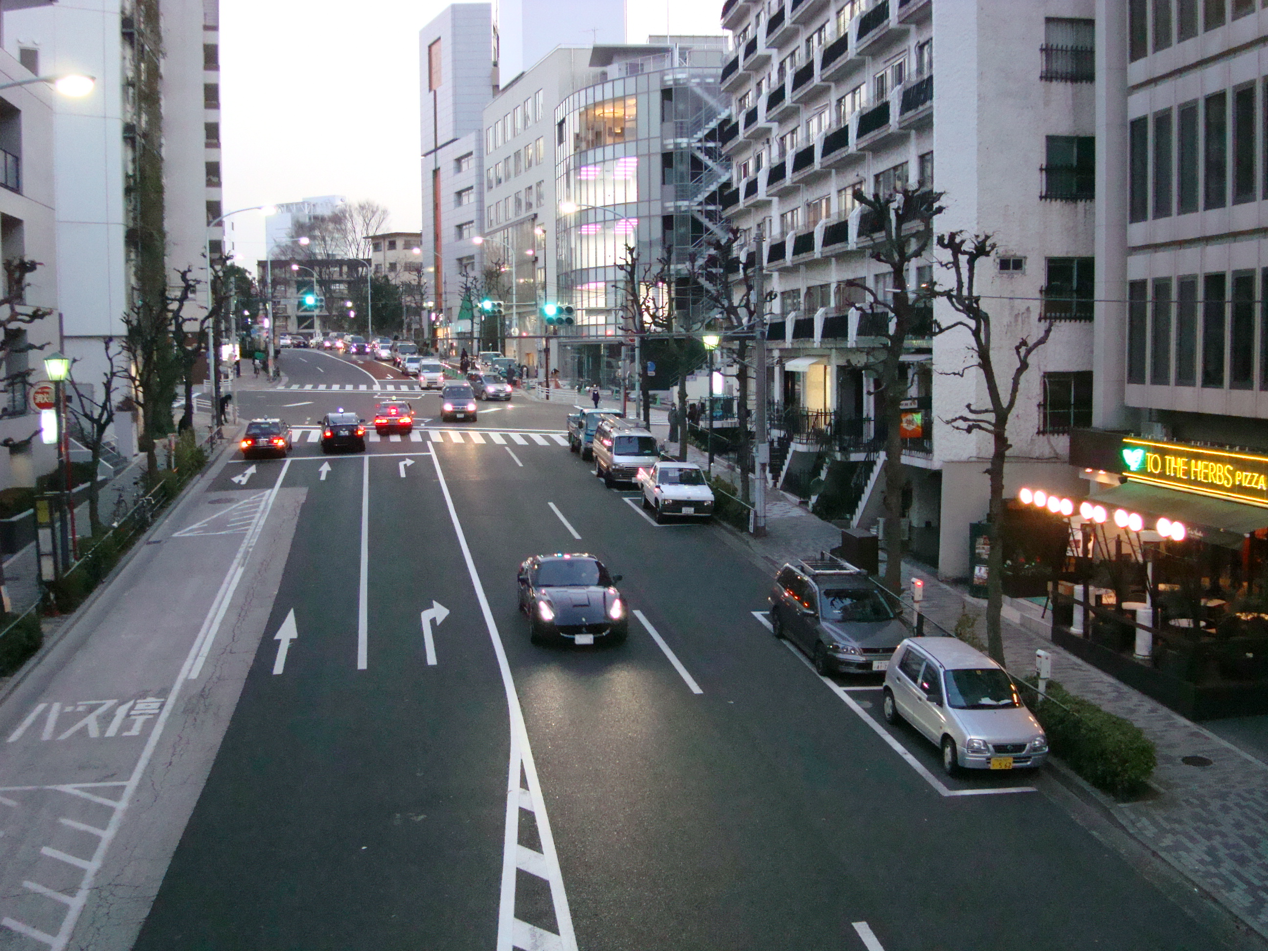 Gaien-Nishi-Dori Avenue in the early evening, Harajuku, Tokyo (Jingu-mae 3-chome)